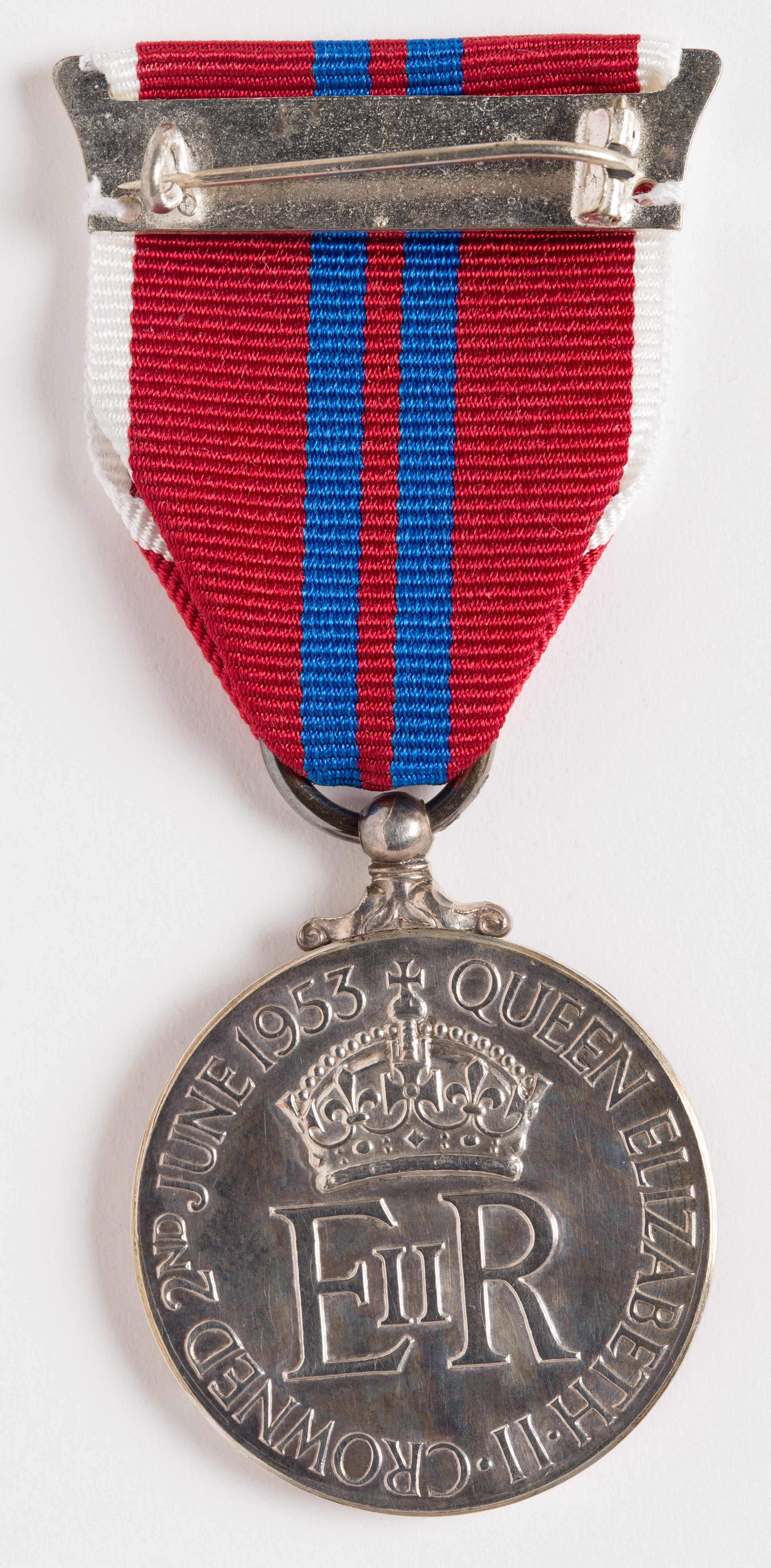 The Coronation Medal, 1953 in royal mint case of issue